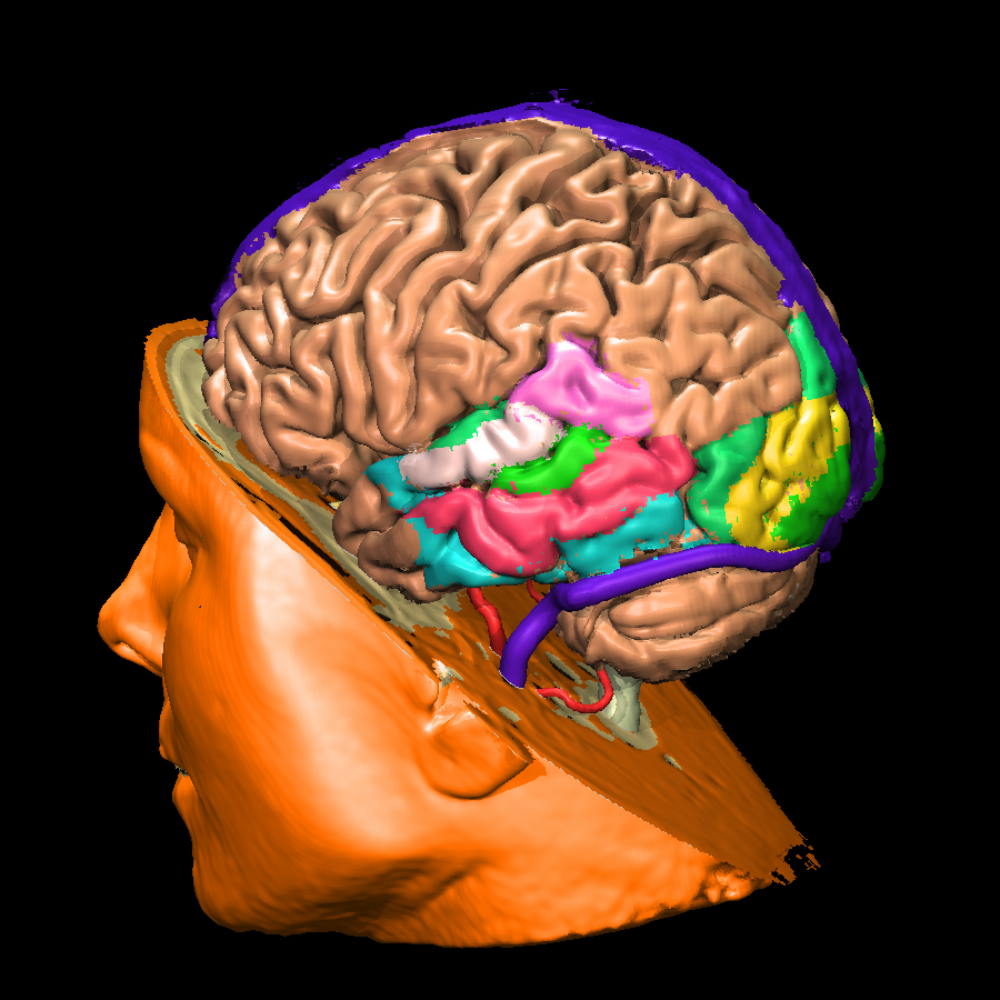 3D rendering of a brain created with the VOXEL-MAN program from dmagnetic resonance imaging data